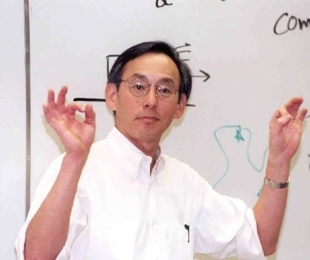 Steven Chu, 1997 Nobel Prize in Physics